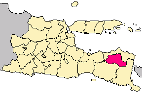 Location of Bondowoso county in East Java province, Indonesia